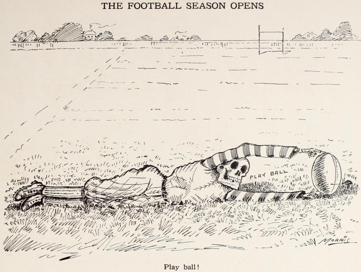 Editorial cartoon by William C. Morris.